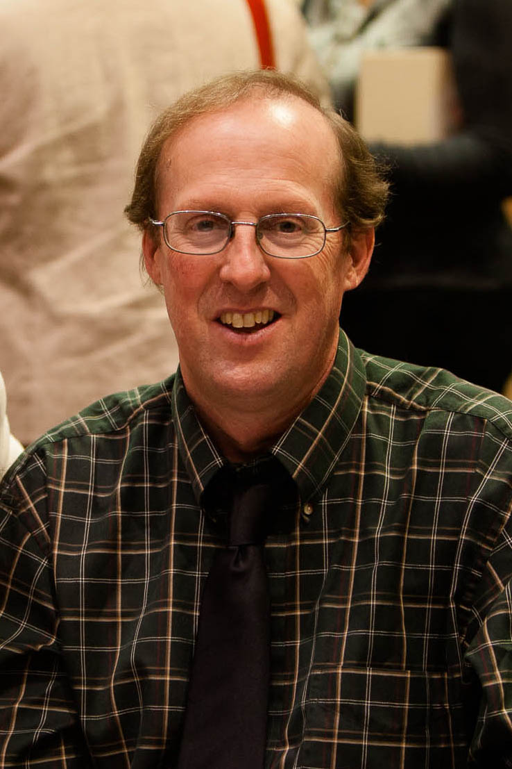 Gary D. Schmidt at the Mazza Museum at The University of Findlay.